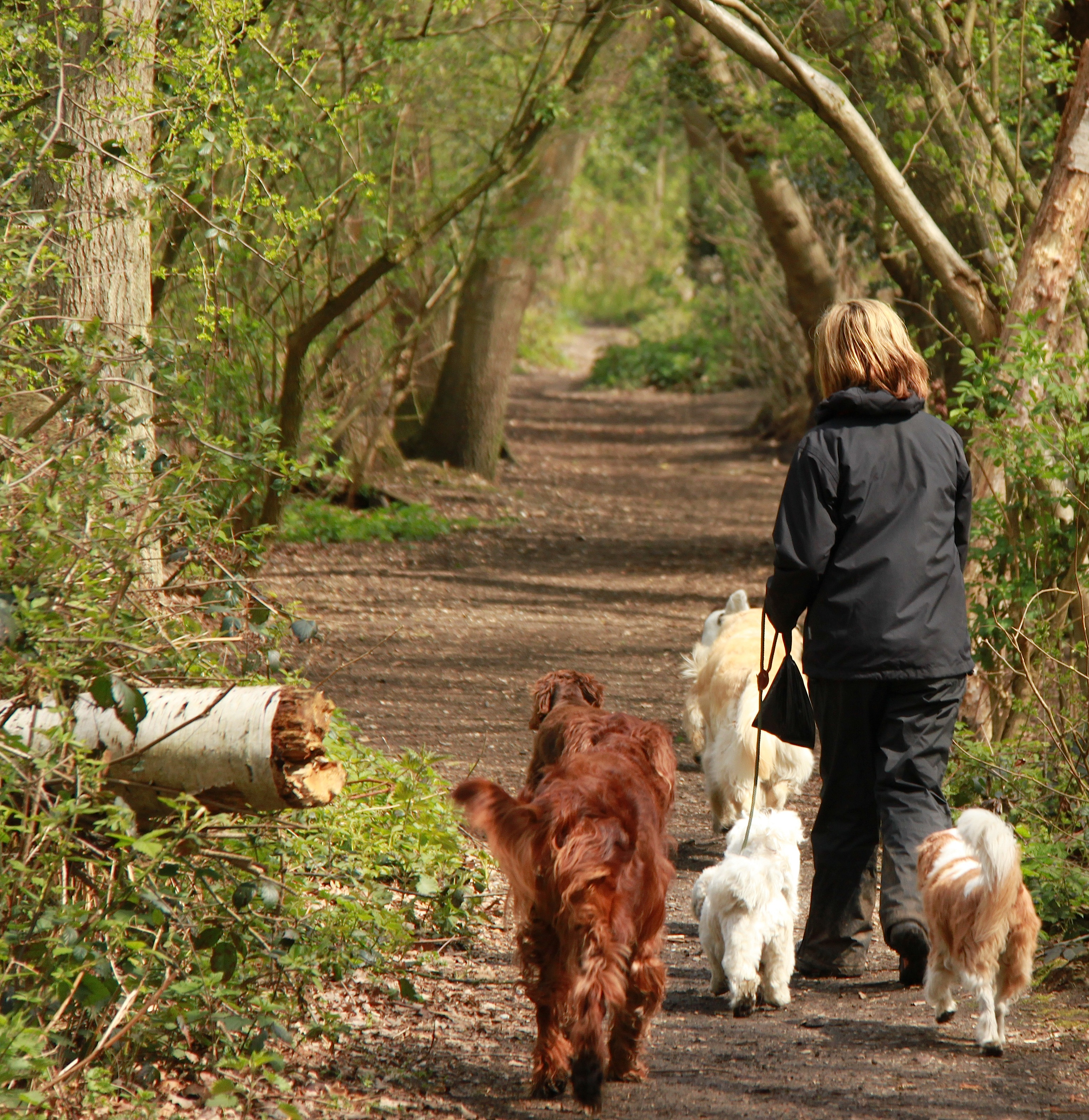 Spring in London - Wimbledon - April 2012